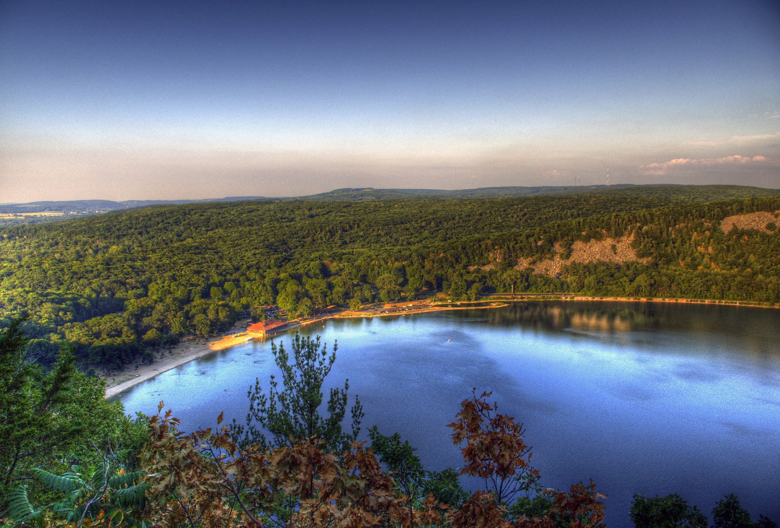 This shot was taken looking down towards the northern shore of Devil's Lake, in Baraboo Wisconsin .